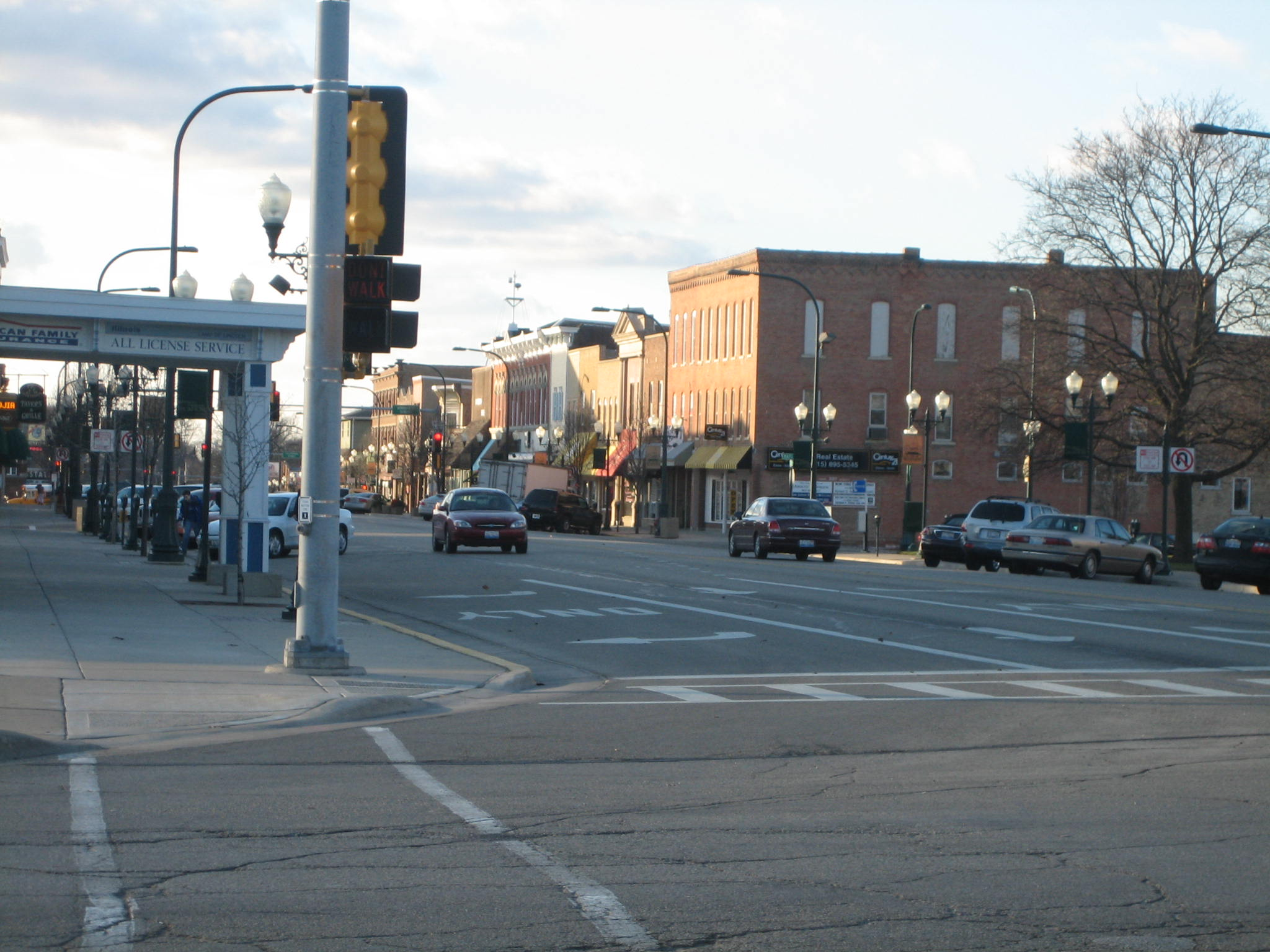 George's Block, State Street. Downtown Sycamore, Illinois. Sycamore Historic District, National Register of Historic Places.